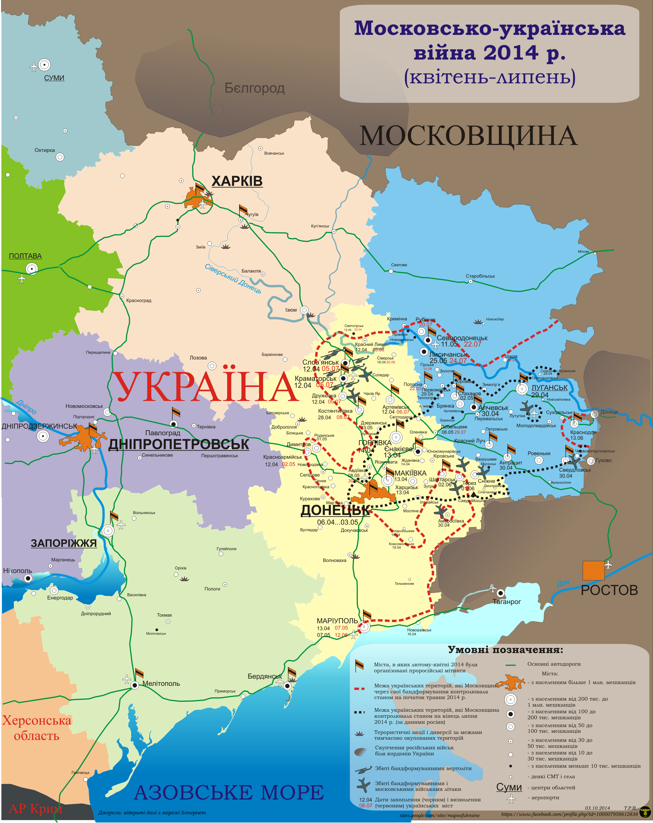 Russian - Ukrainian War of 2014 (April-July)